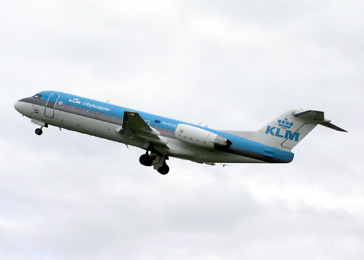 KLM Fokker 70 (PH-KZE) taking off at Bristol Airport, Bristol, England. Taken by Adrian Pingstone in August 2004 and released to the public domain.